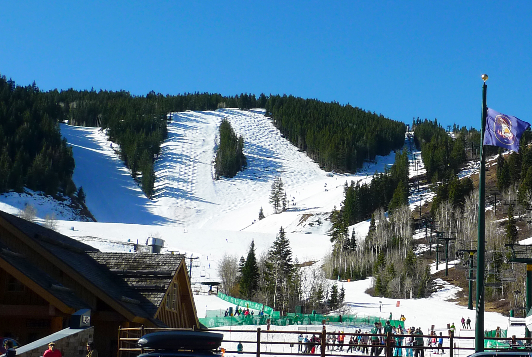 Deer Valley Ski Resort Park City Utah photo D Ramey Logan